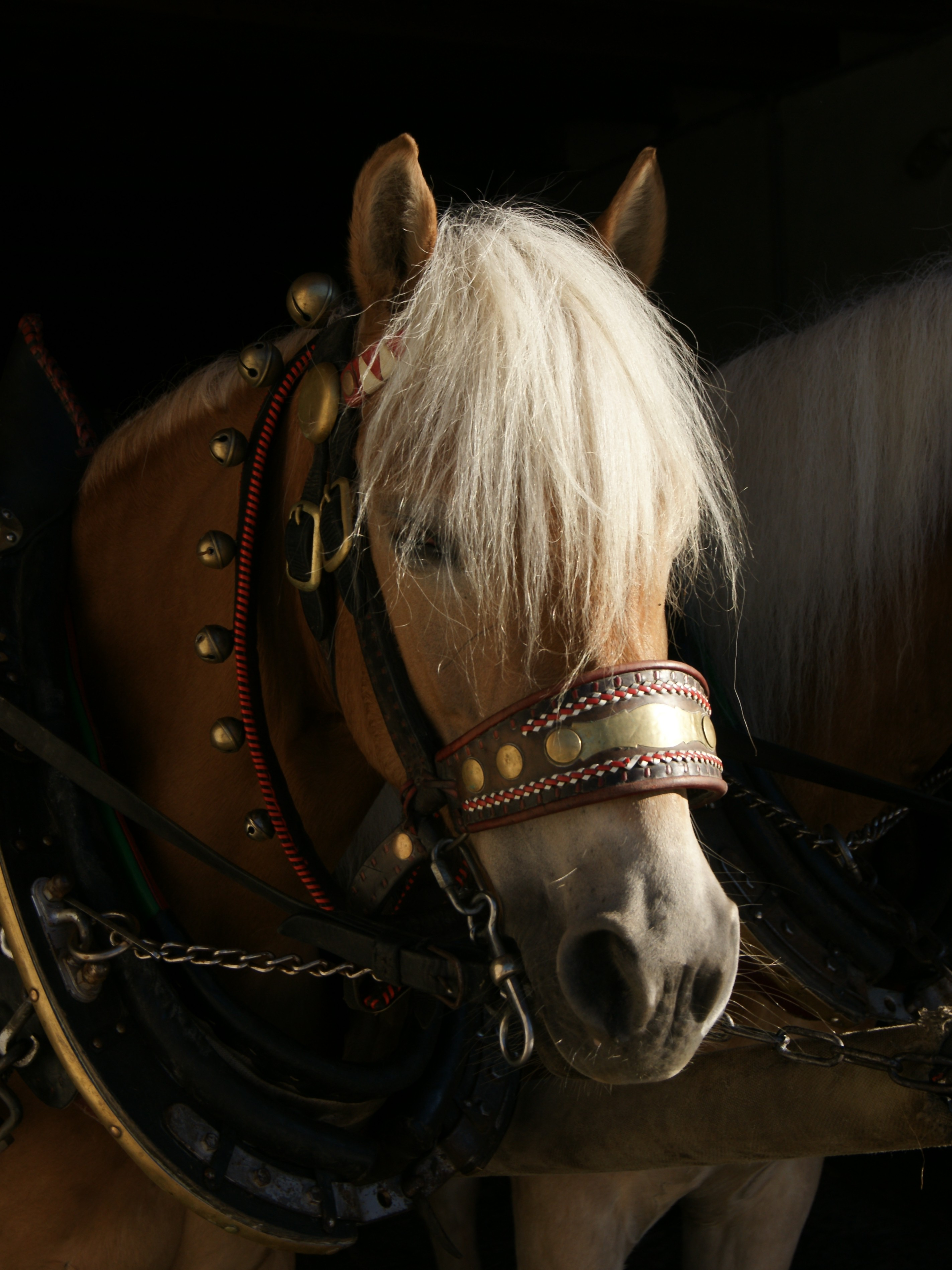 The Haflinger is a breed of horse developed in Austria and northern Italy during the late 1800s.